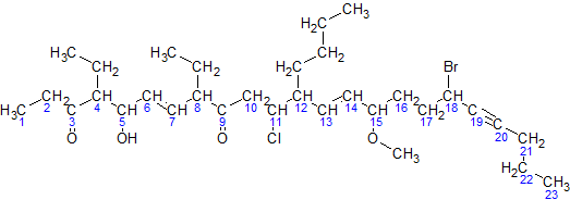 This is an image of the molecule of 18-bromo-12-butyl-11-chloro-4,8-diethyl-5-hydroxy-15-methoxytricos-6,13-diene-19-yne-3,9-dione. All carbon atoms in the parent chain are shown. To see the molecule without the carbon atoms in the parent chain, see Image:IUPAC naming example without carbons.png This may or may not be a real molecule. This is being used to show the basic principles of IUPAC naming. Its SMILES is: CCC(=O)C(CC)C(O)/C=C/C(CC)C(=O)CC(Cl)C(CCCC)/C=C/C(CCC(Br)C#CCCC)OC